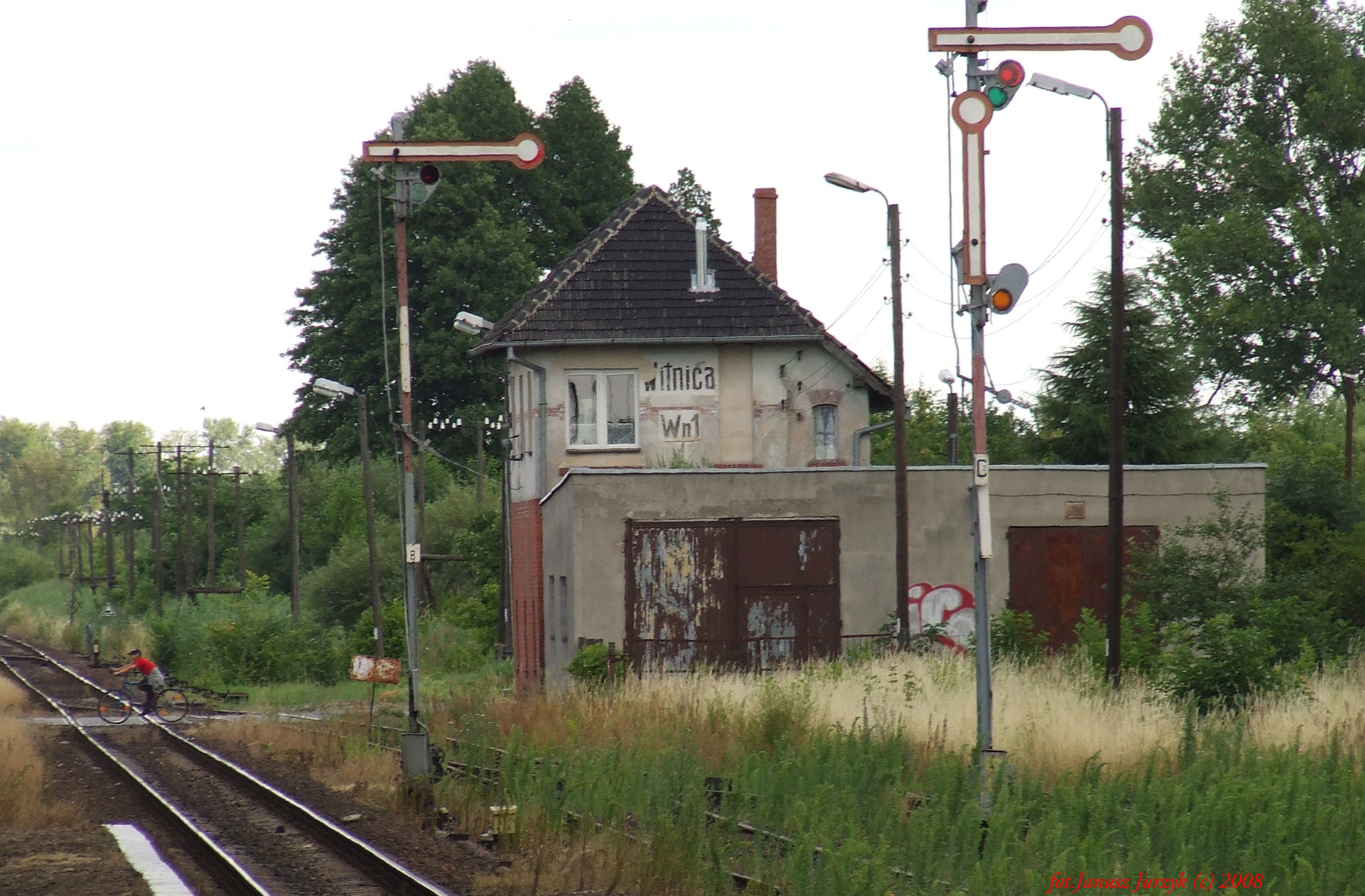 Przystanek osobowy Witnica.